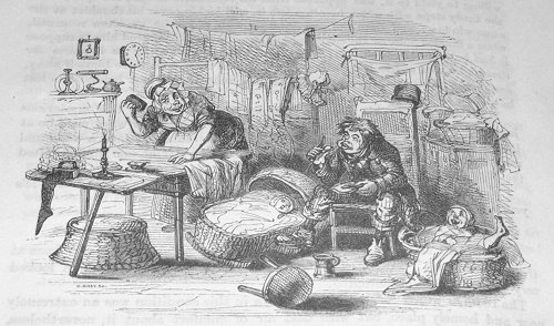 A drawing from The Old Curiosity Shop by Charles Dickens.